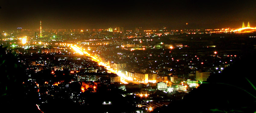 Taken in Jinping District a while ago.